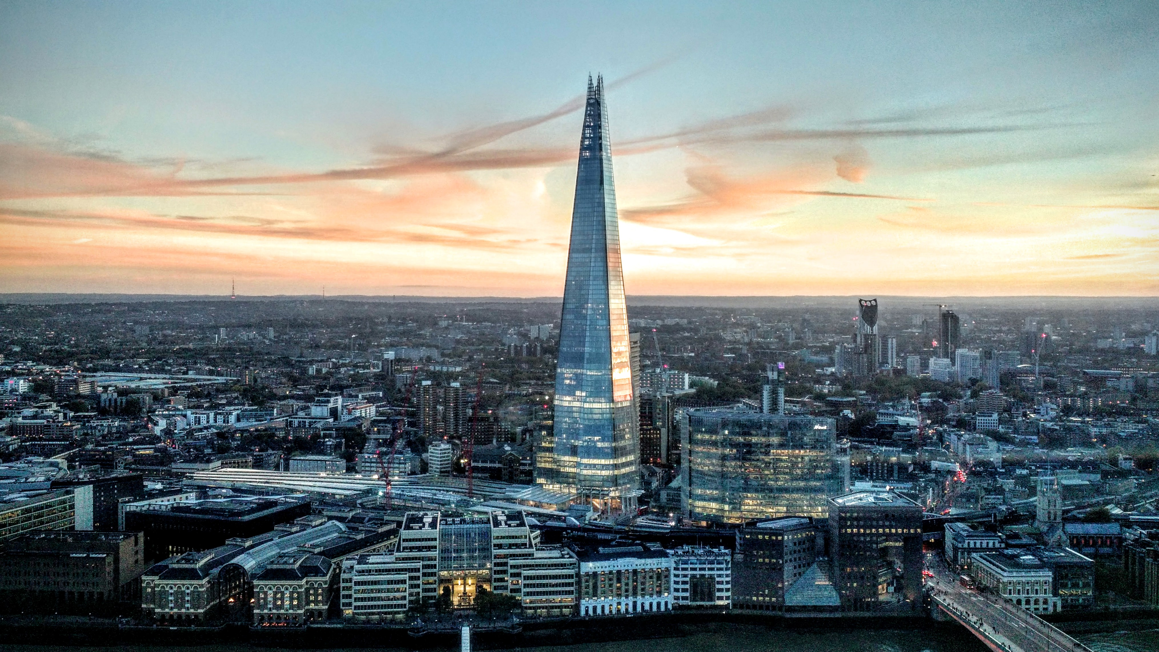 Darwin Brasserie, London, United Kingdom